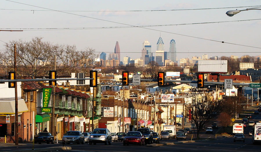 Image of Upper Darby, Pennsylvania, with the Philadelphia skyline in the background.from-upper-darby-1.jpg